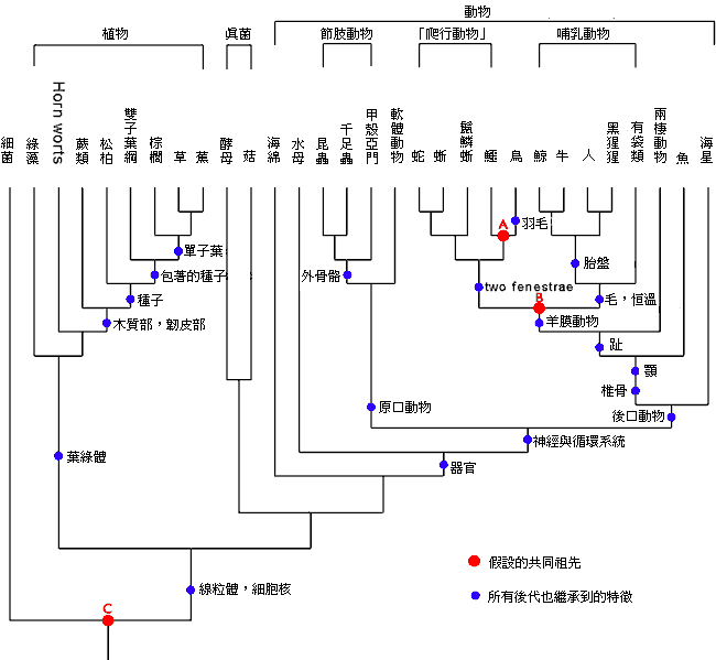 Phylogenetic tree in Chinese